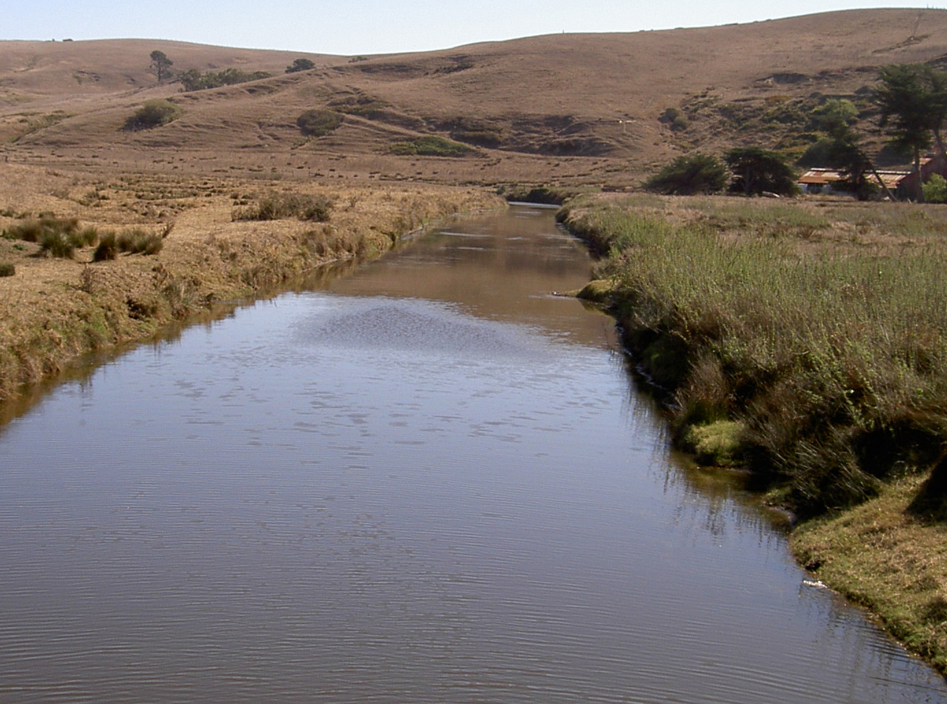 Estero de San Antonio, looking upstream from the Middle Road bridge